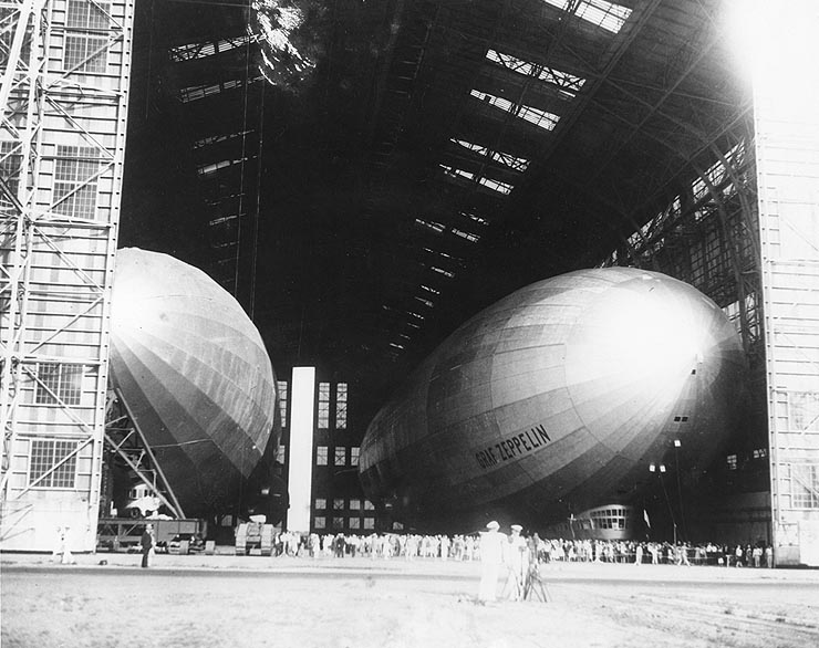 German Dirigible Graf Zeppelin (LZ-127) (at right) in the airship hangar at Naval Air Station Lakehurst, New Jersey. Photo is dated 7 August 1929. Also in the hangar is USS Los Angeles (ZR-3), which had been built in Germany as Zeppelin airship LZ-126. Original caption: "Photo # NH 69168 USS Los Angeles & Graf Zepelin in the hangar at NAS Lakehurst, New Jersey"